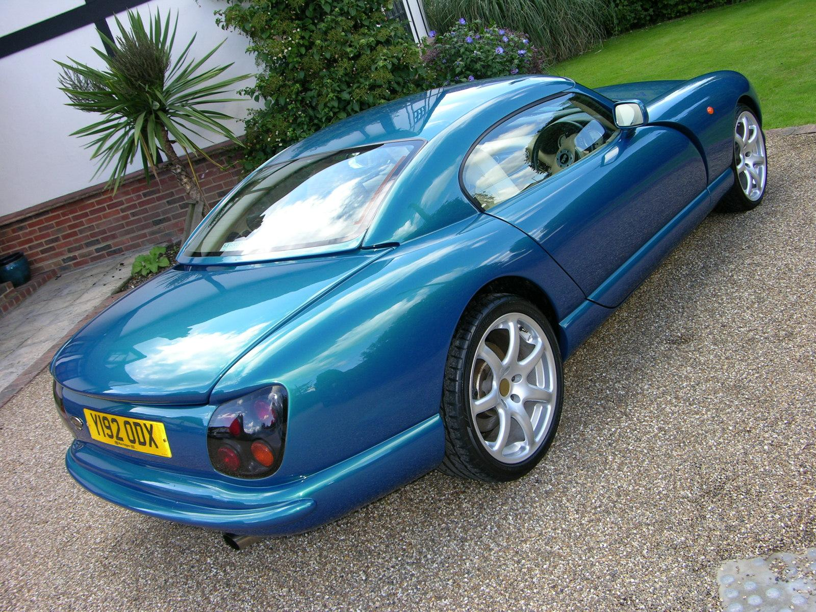 TVR Cerbera Speed Six.